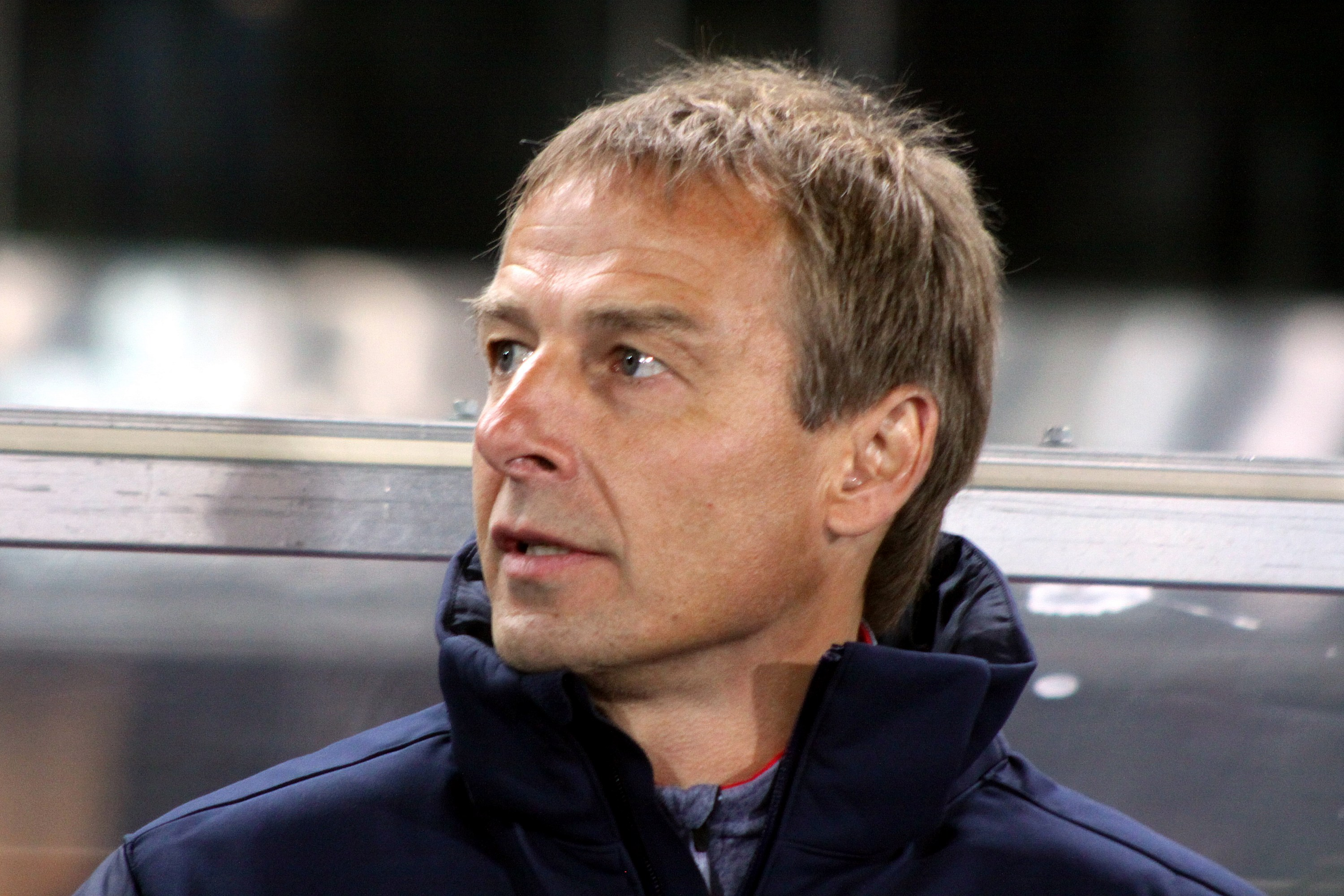 Friendly-match Austria vs. USA (1:0) in the Ernst-Happel-Stadion in Vienna at 2013-03-22. – The photo shows the teamchef of USA Jürgen Klinsmann.